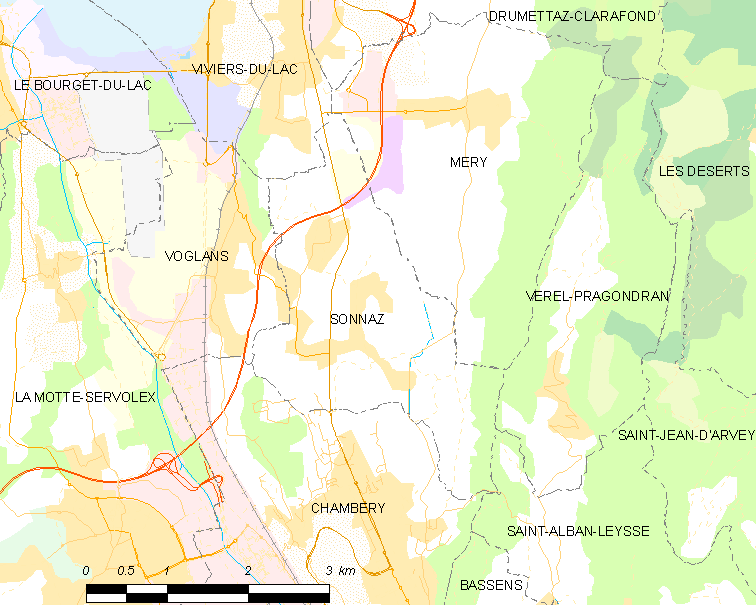 Map of French municipality Sonnaz